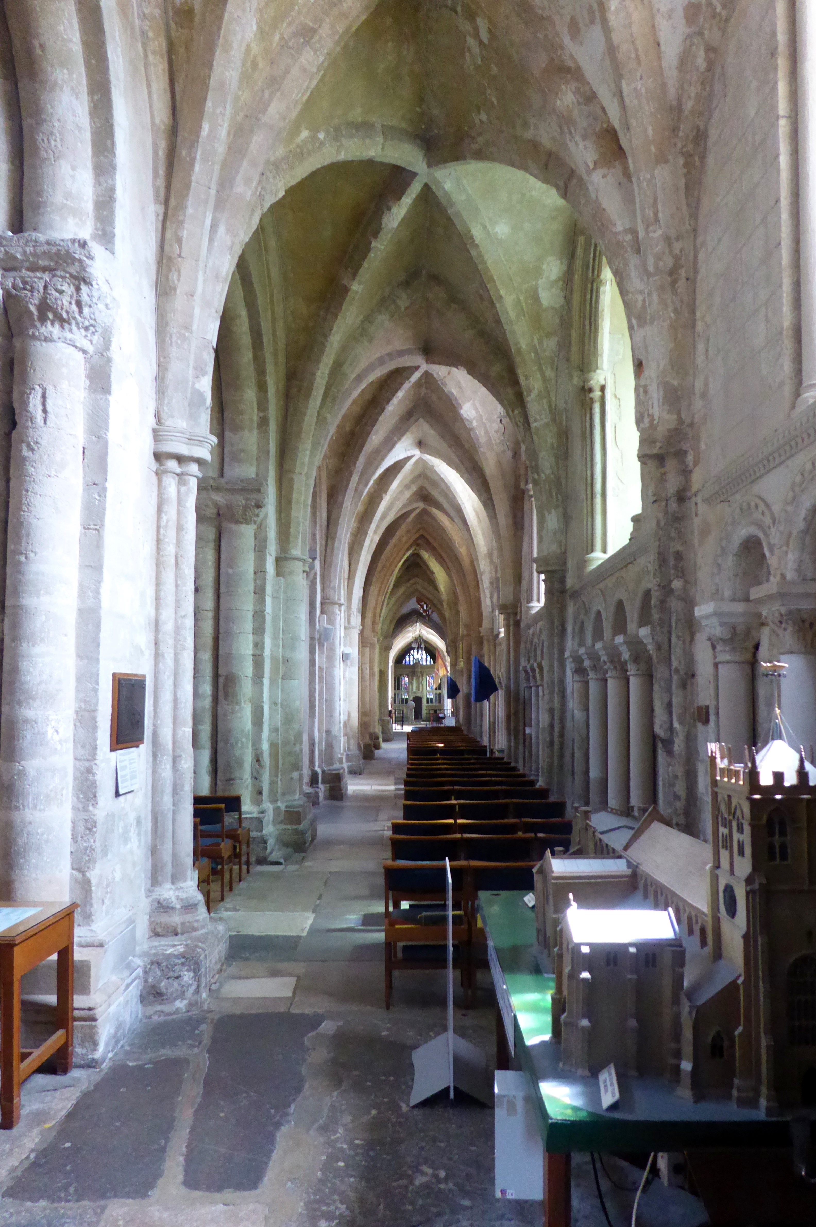 A view of the southern aisle of Christchurch Priory in Dorset, taken facing the eastern end.